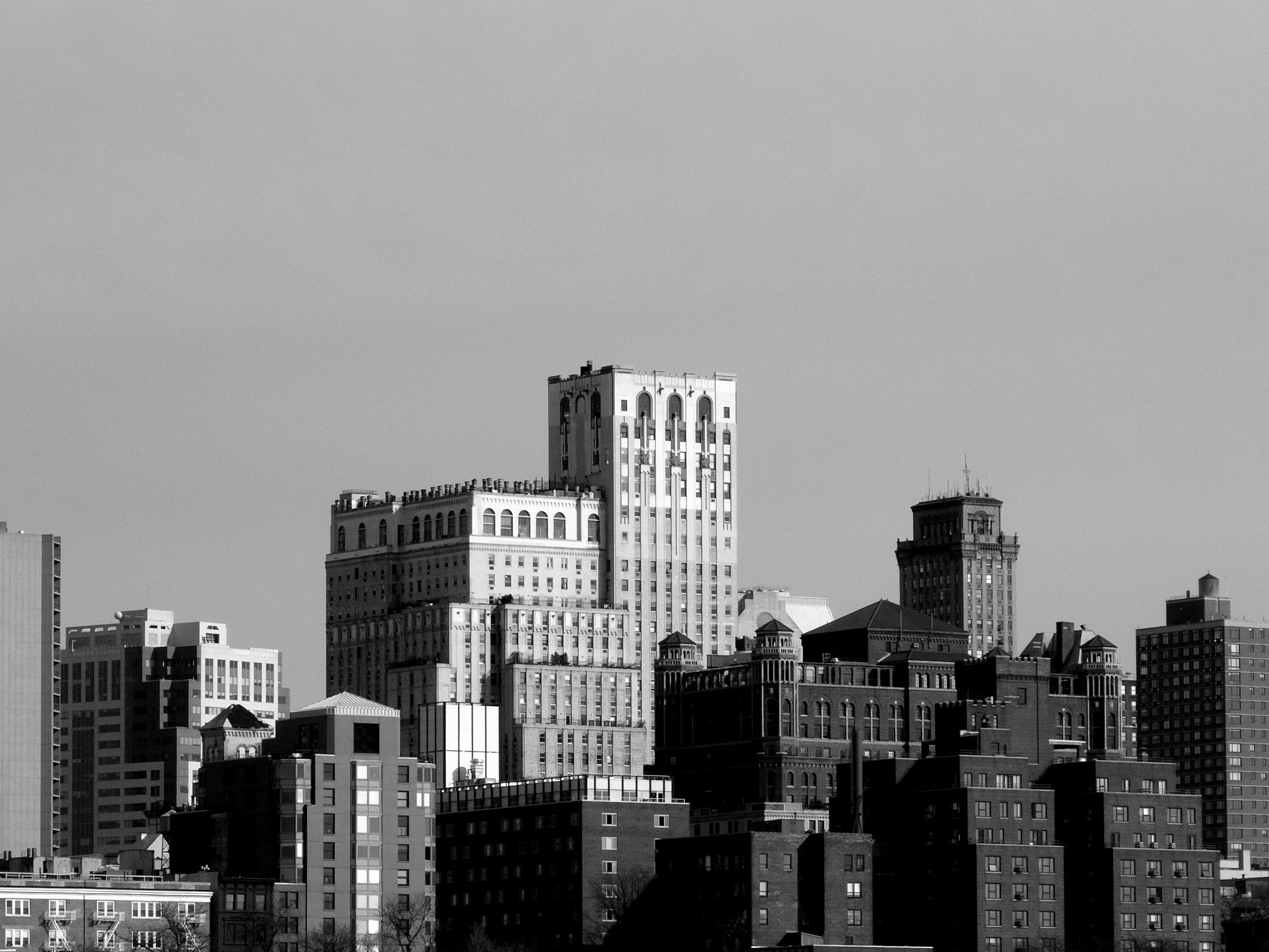 Brooklyn, New York